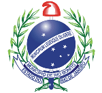 Rio Bonito municipalty coat of arms